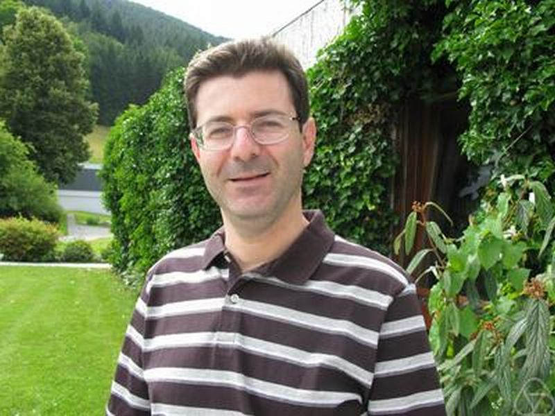 Henri Darmon, Oberwolfach 2009